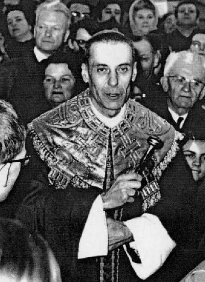 Bishop Mgr. Jean Albert Marie Auguste Bernard